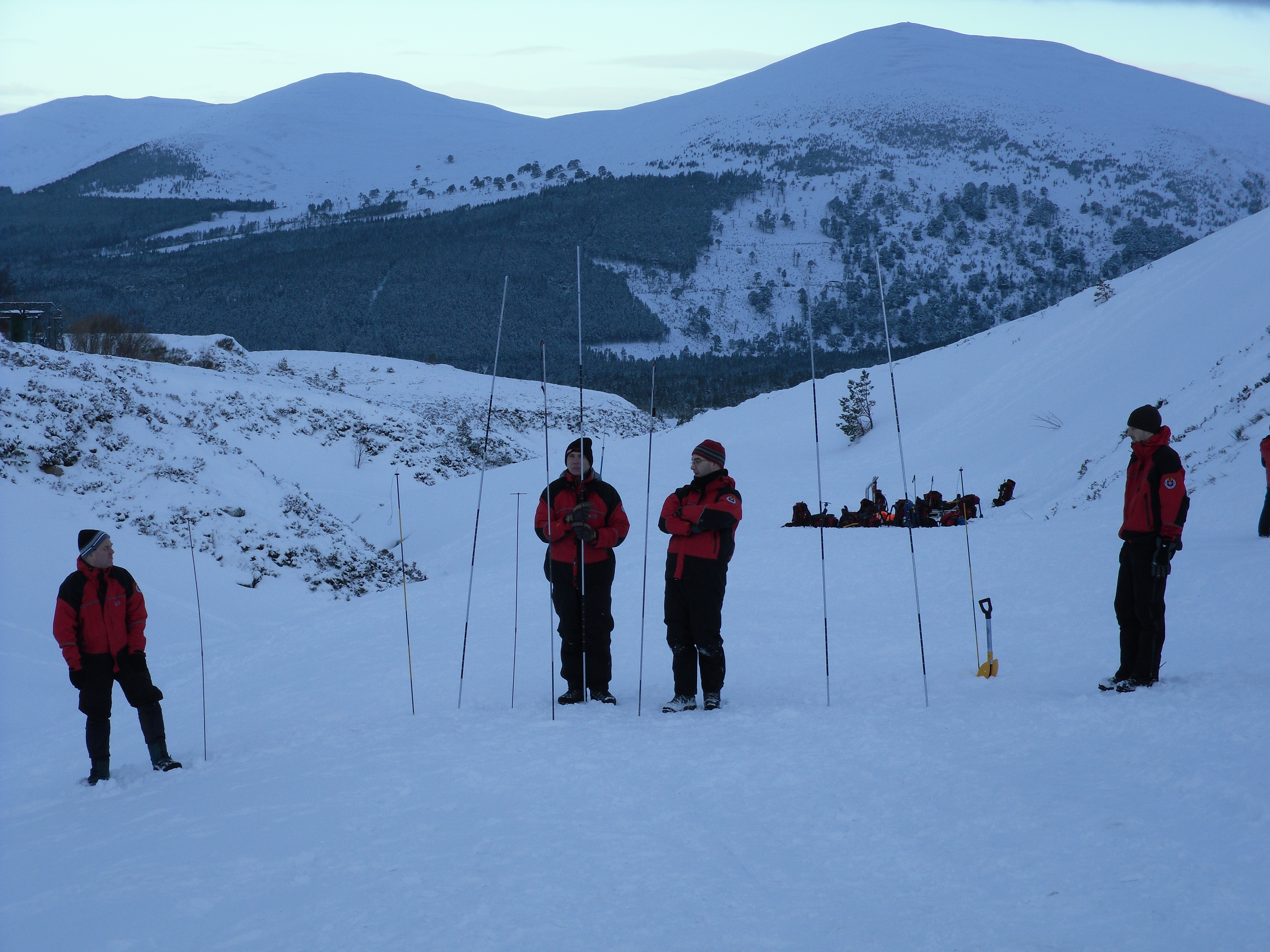 Avalanche Probing, Allt na Ciste